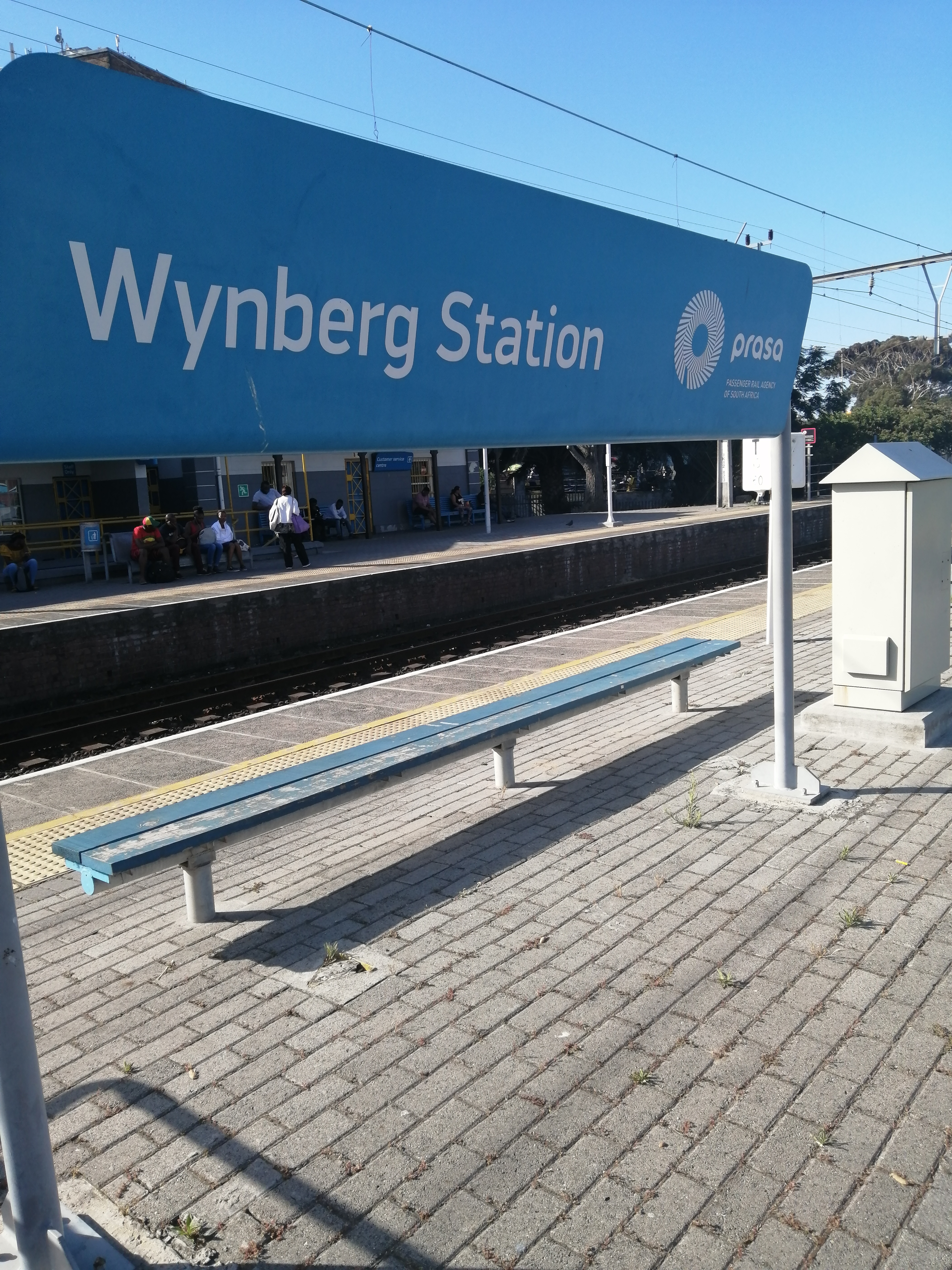 This is an image with the theme "Africa on the Move or Transport" from: South Africa